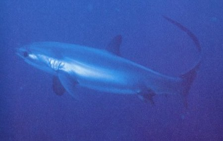 Alopias pelagicus, Pelagic thresher